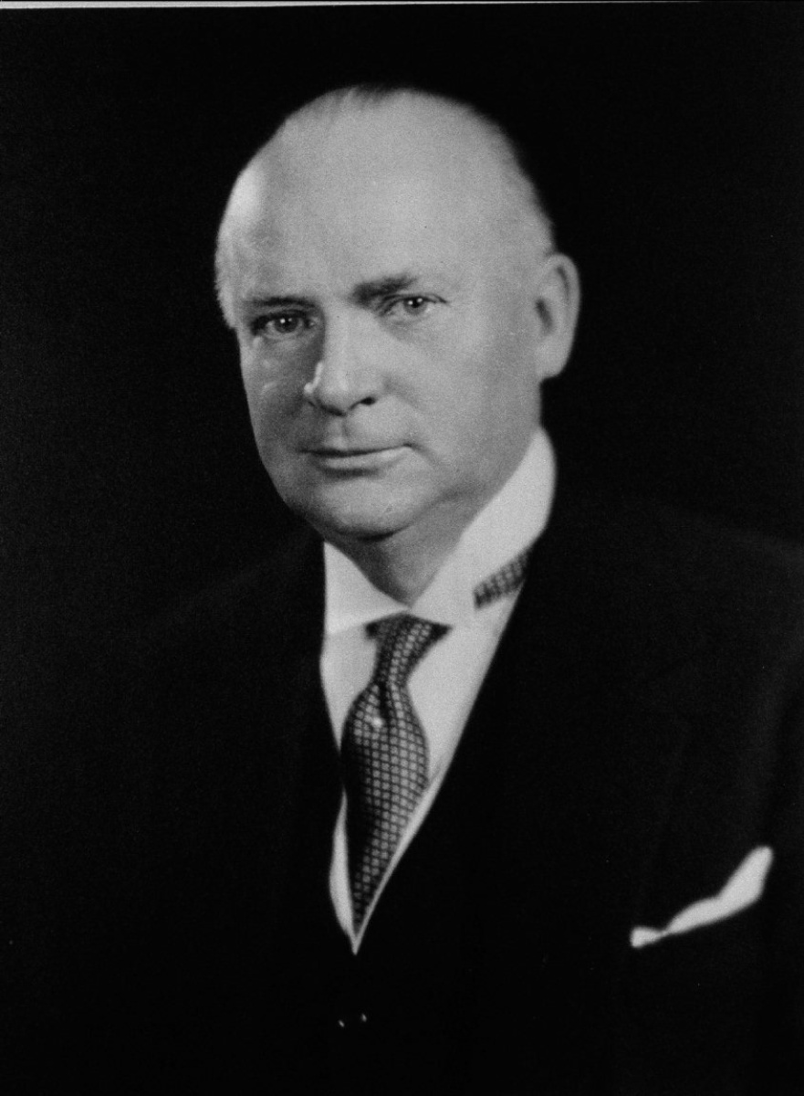 Photo of Richard Bedford Bennett, 1st Viscount Bennett, the eleventh Prime Minister of Canada